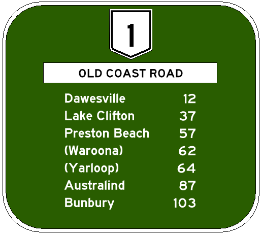 Created in Paint Shop Pro by modifying my earlier work, File:Swhighwaywa.png, to include the text from File:OldCoastRoadsign.jpg by User:DBZ2313. The first file was released as public domain, the second as CC-BY-SA 3.0.